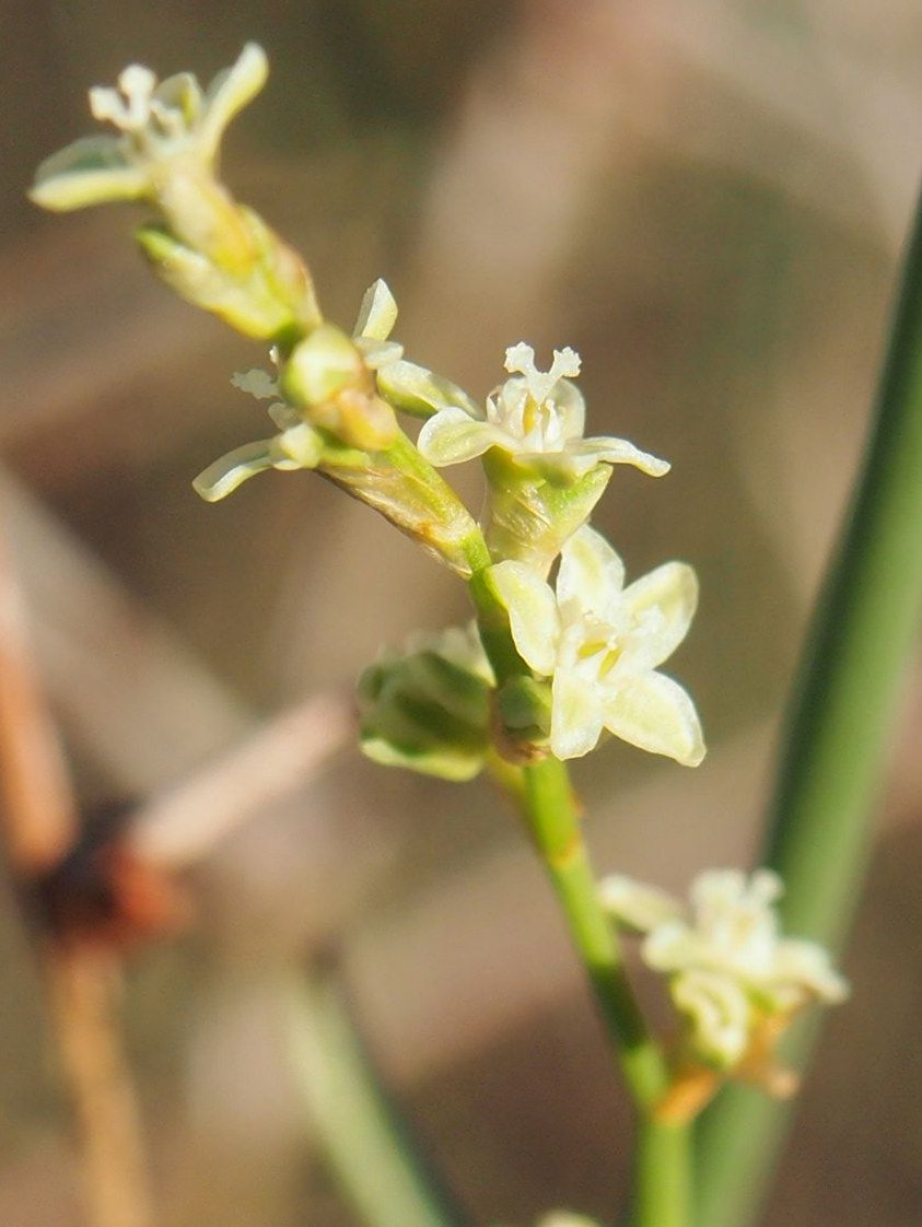 Muehlenbeckia florulenta flowers